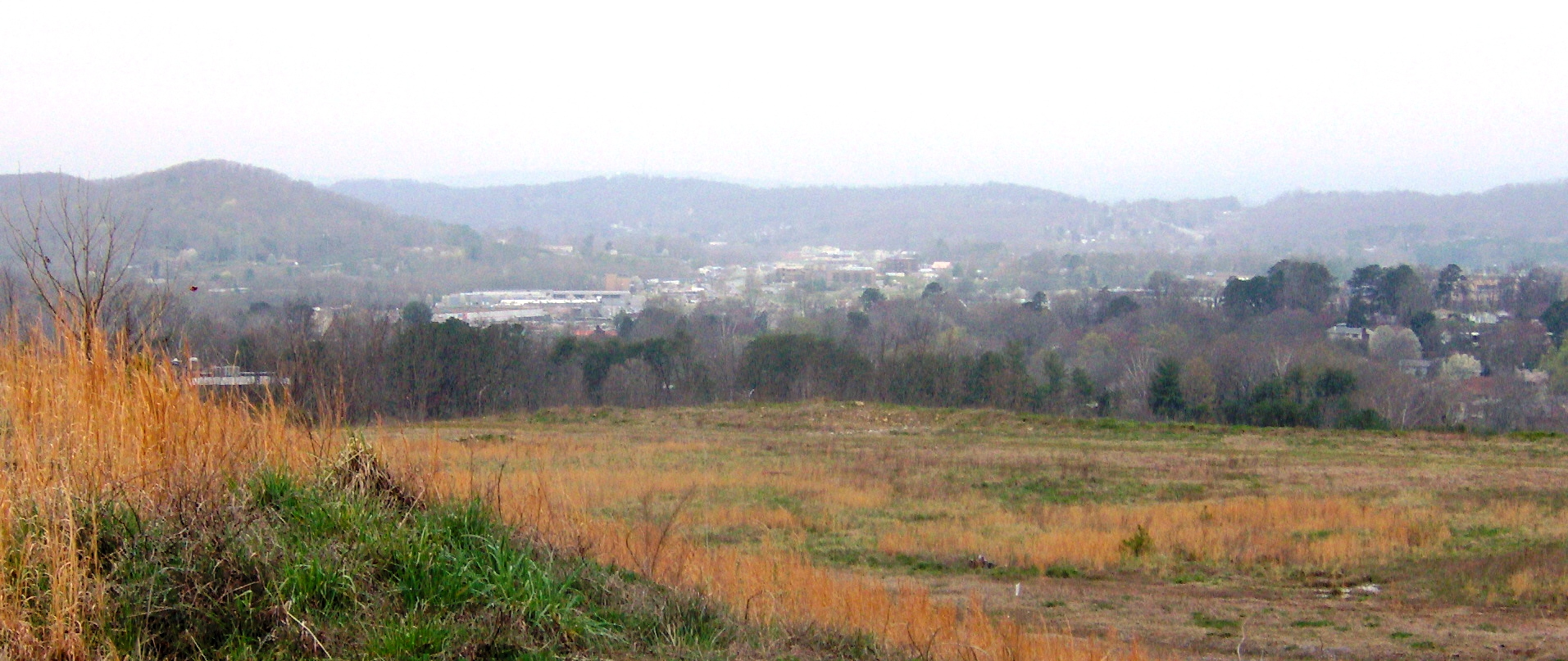 View looking northwest from the Oak Ridge Summit in Oak Ridge, Tennessee, in the southeastern United States. Part of East Fork Ridge is on the left, with Blackoak Ridge spanning the photograph in the distance. The downtown Oak Ridge area is below.